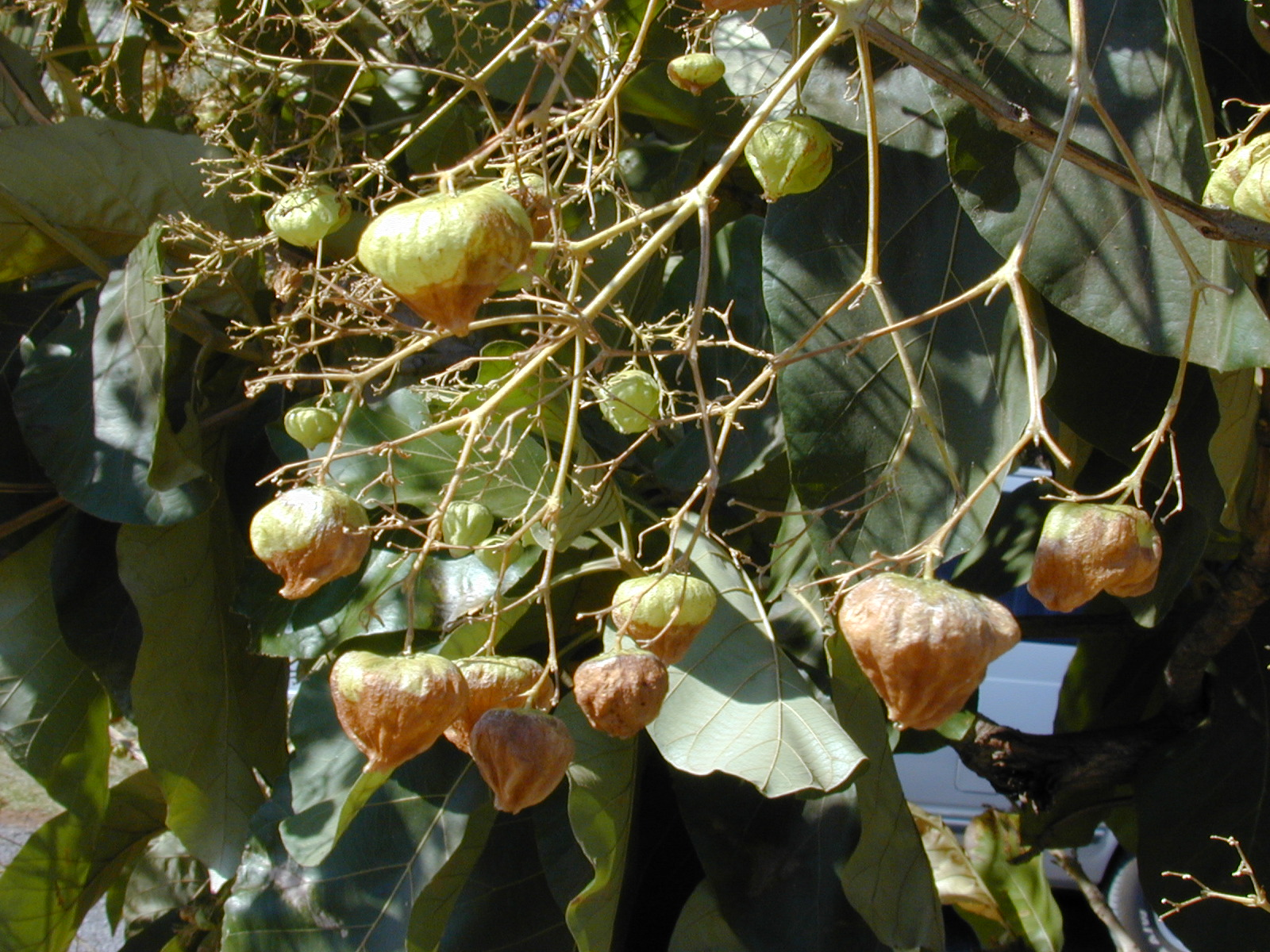 Tectona grandis (fruits). Location: Maui, Kihei